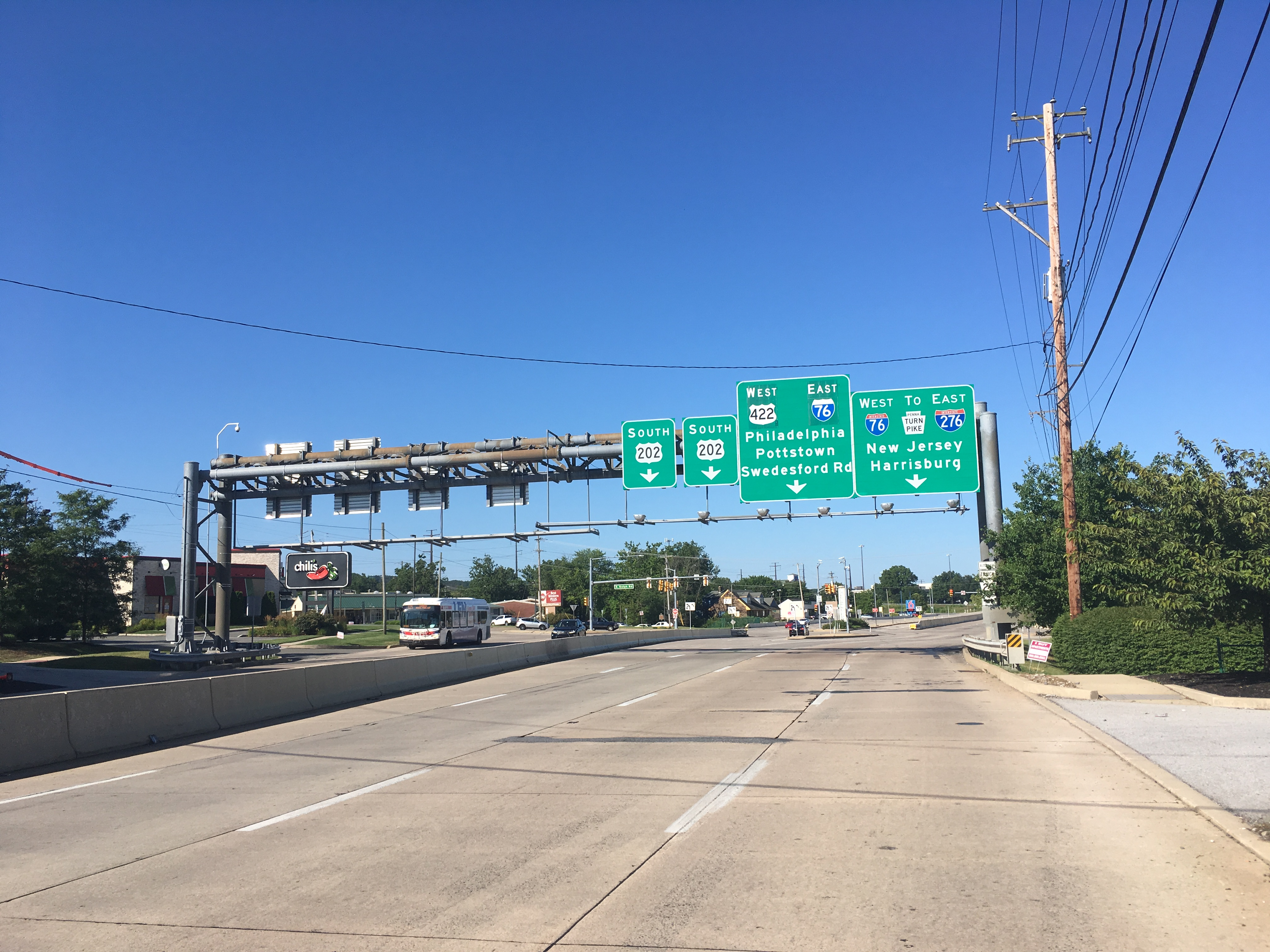 Southbound U.S. Route 202 (Dekalb Pike) approaching the intersection with Gulph Road in King of Prussia, Pennsylvania.